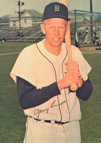 Professional baseball player Jerry Lumpe